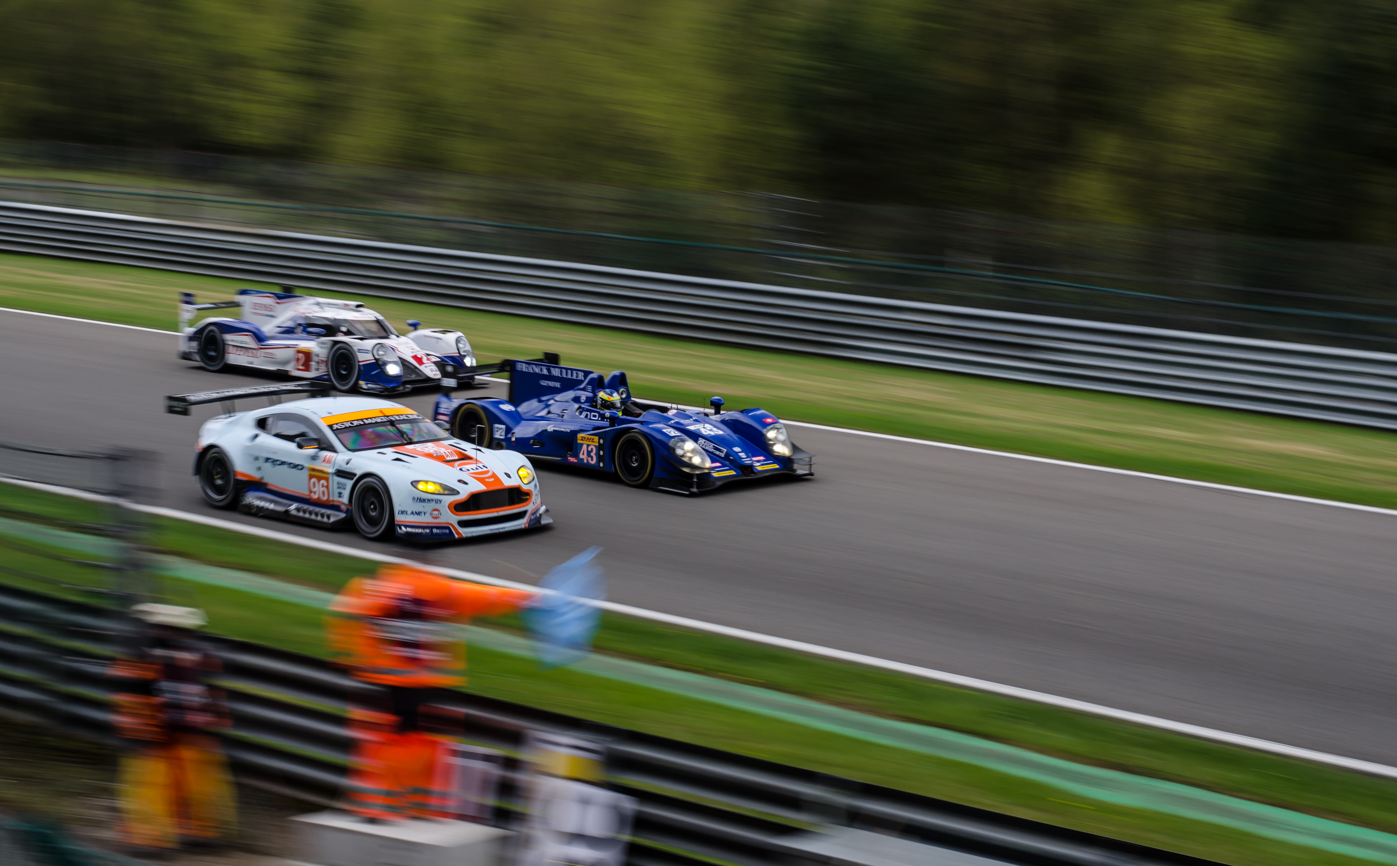 That was quite a nice view I was able to get a shot of. SOme kind of a double blue flag. As the Morgan evo (LMP2) was overtaking an Aston Martin V8 Vantage (LMGTE AM) he had to go out of the way for the Toyota TS040 (LMP1). It was really nice to see this happening and I'm glad I managed to get a shot of this action.